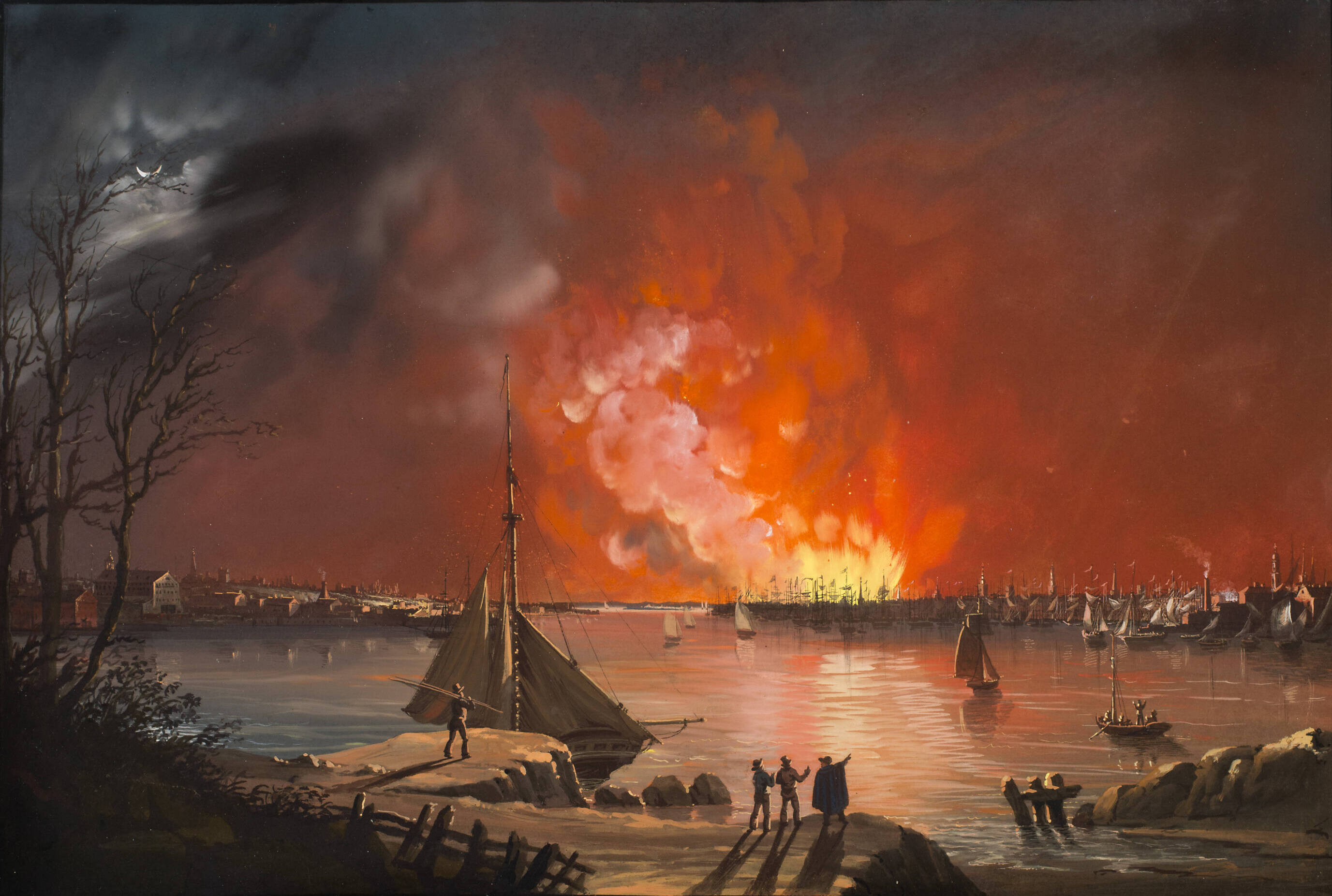 see History of New York City (image reference)